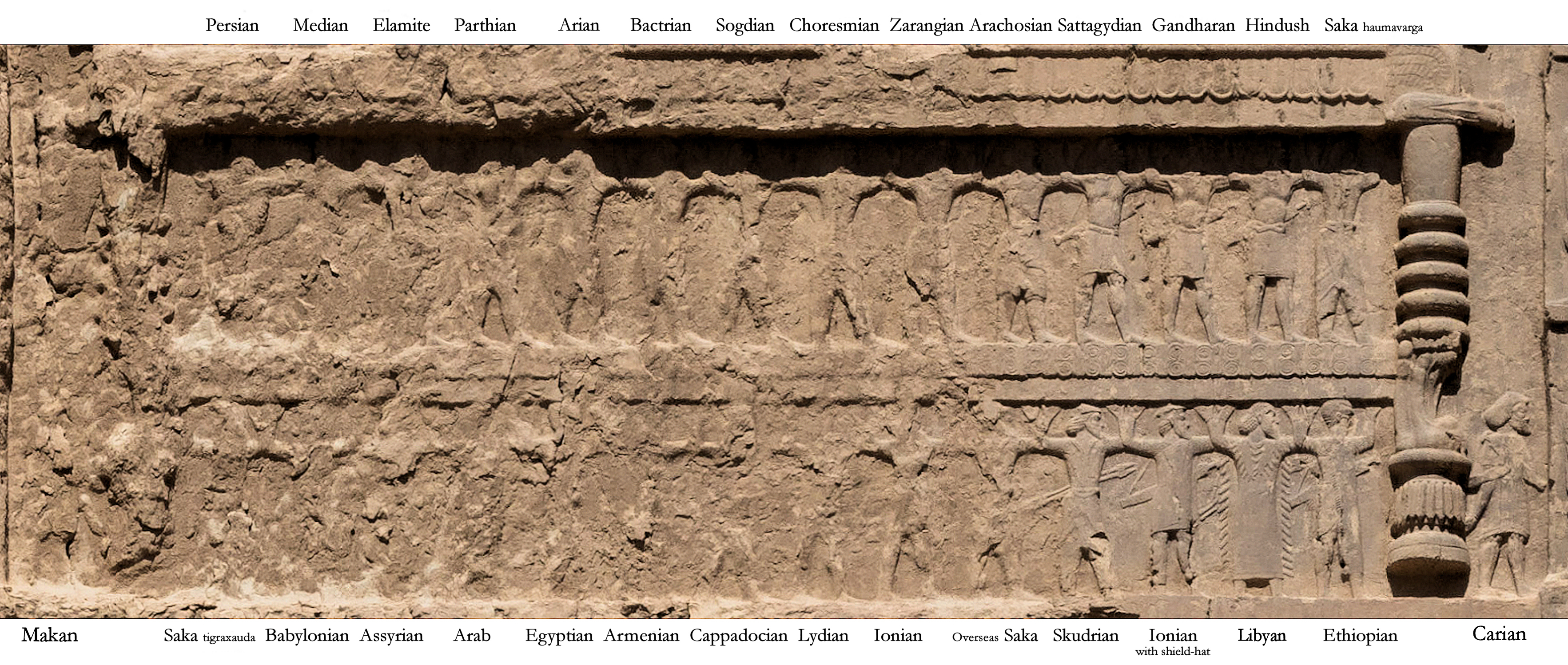 Darius II soldiers with labels